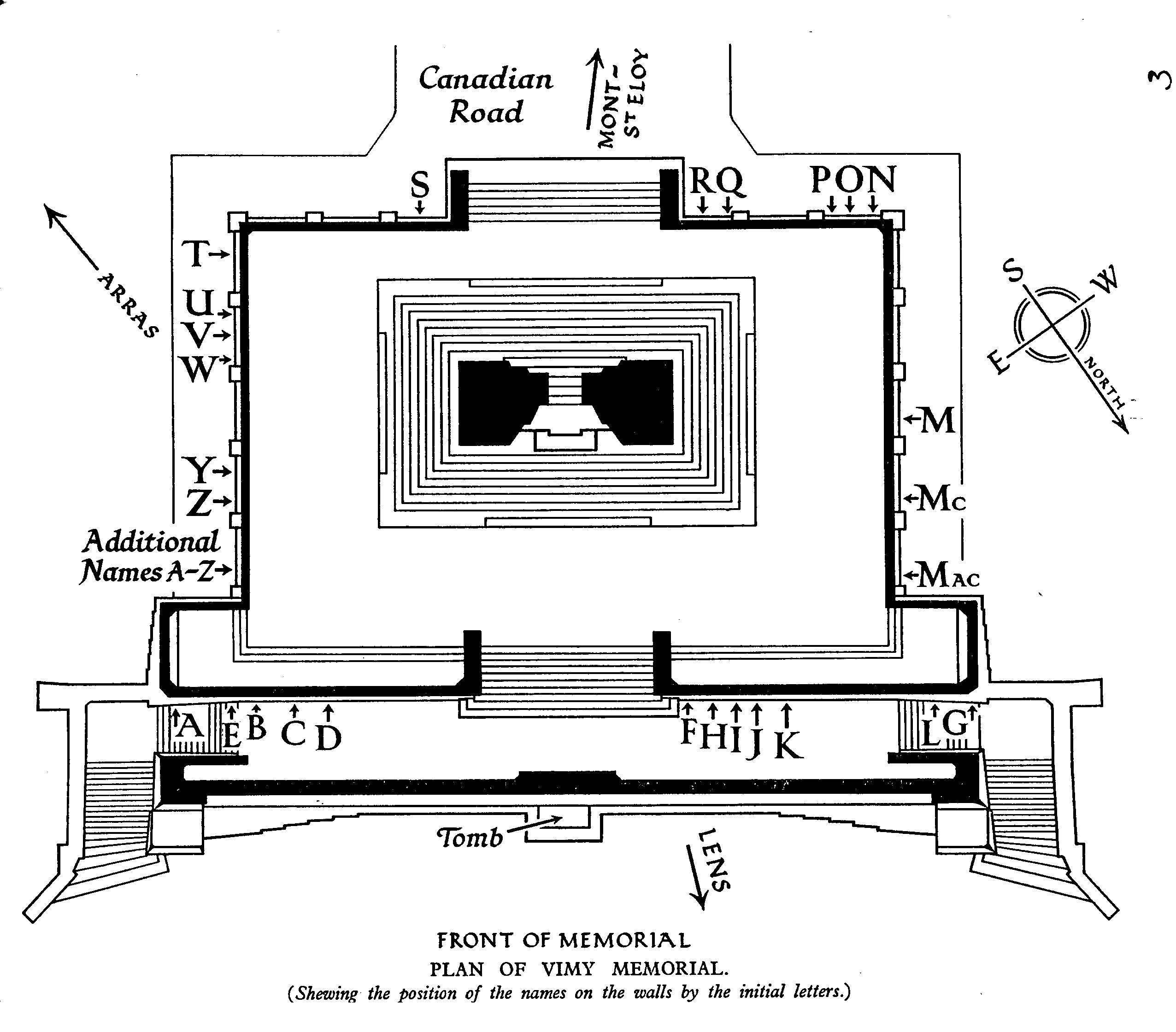 From: The Register Of The Names of Soldiers of the Overseas Military Forces of Canada who fell in France during the Great War, whose graves are not known, and who are commemorated on the Vimy Memorial France